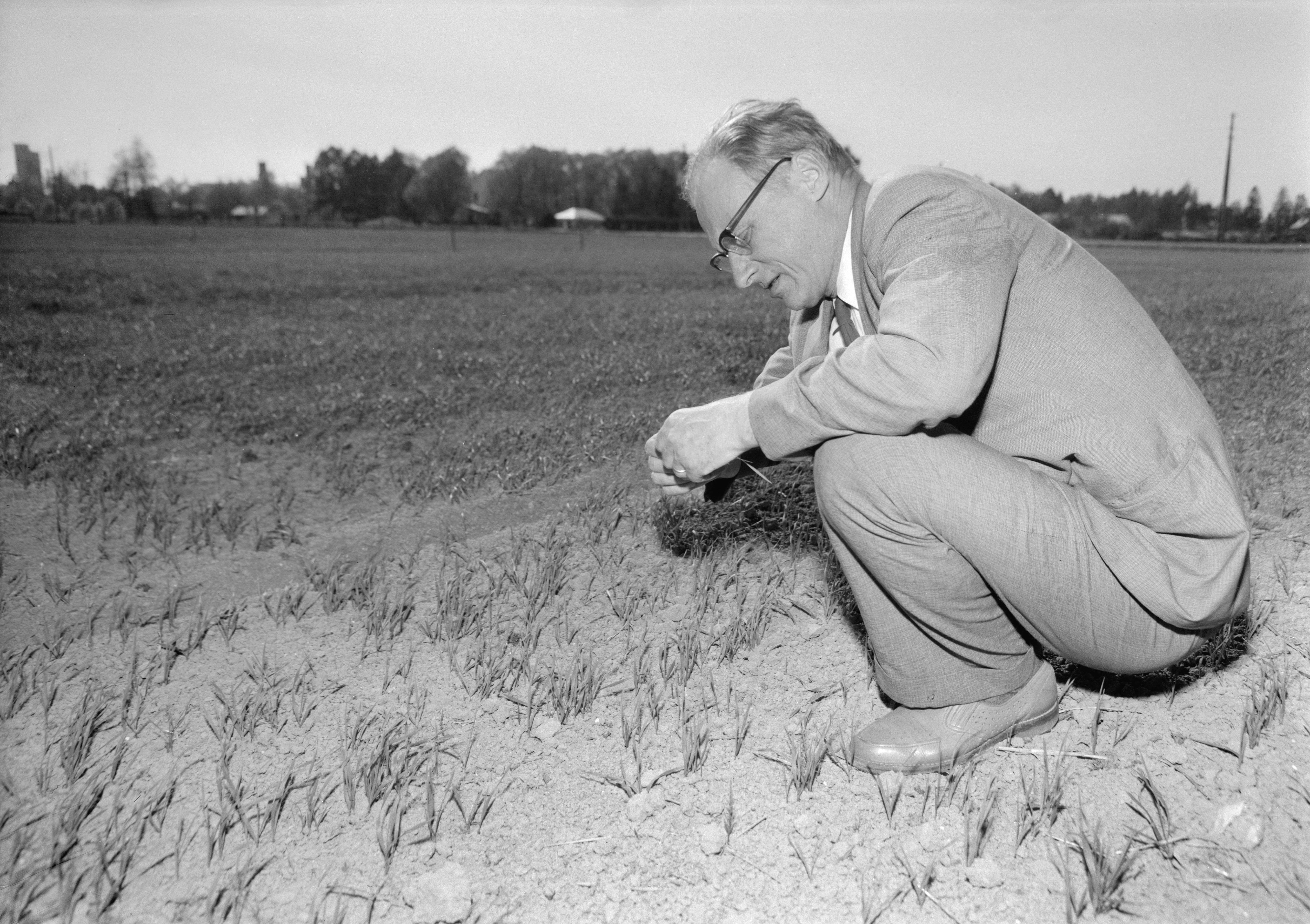 Photograph of the Ingrian-Finnish botanist Eino Armas Jamalainen (1902–1982) examining drought on the fields in Tikkurila, Helsingin maalaiskunta, Finland.